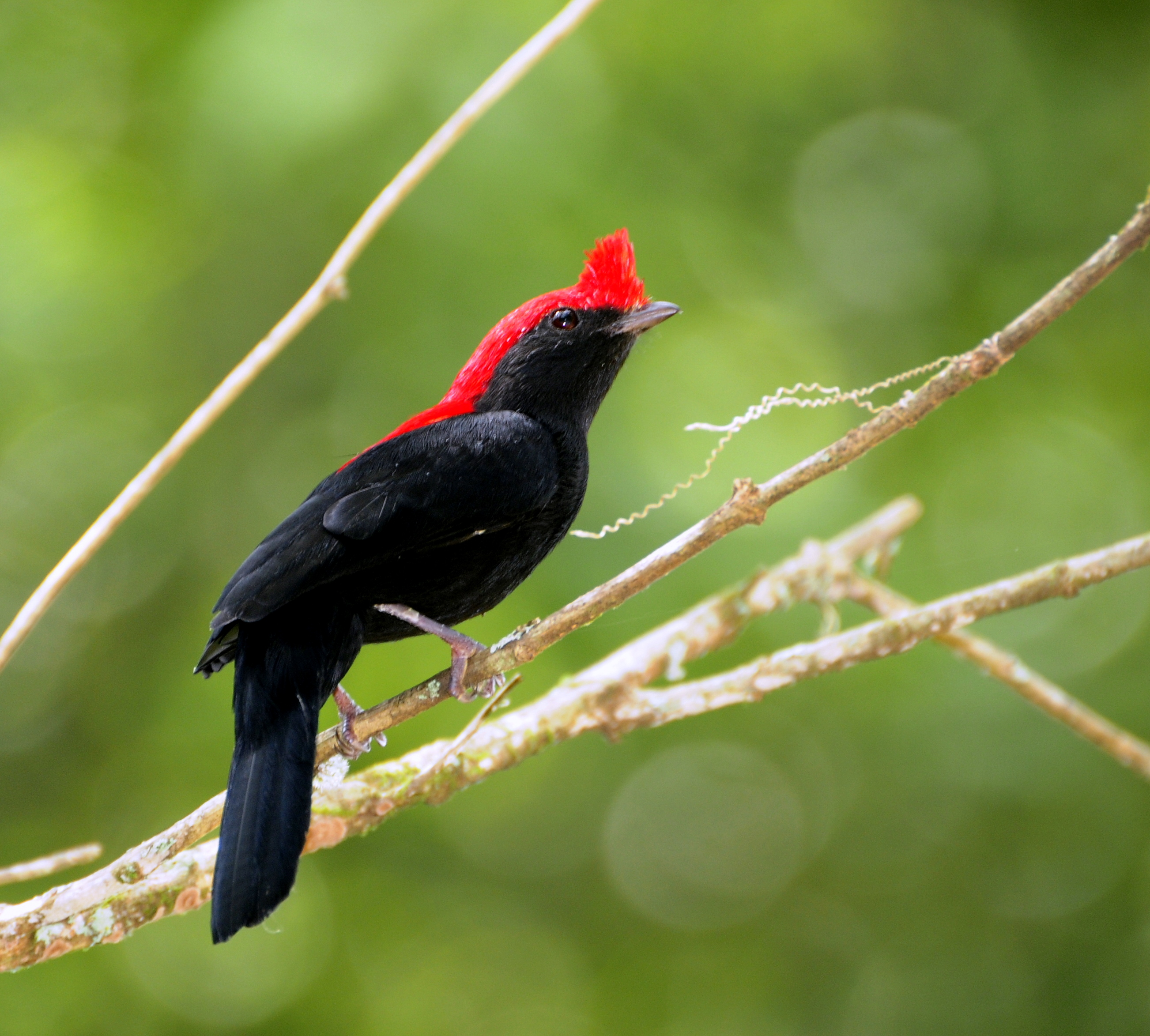 A male Helmeted Manakin in Reserva Ambiental, Piraju, Sao Paulo, Brazil.